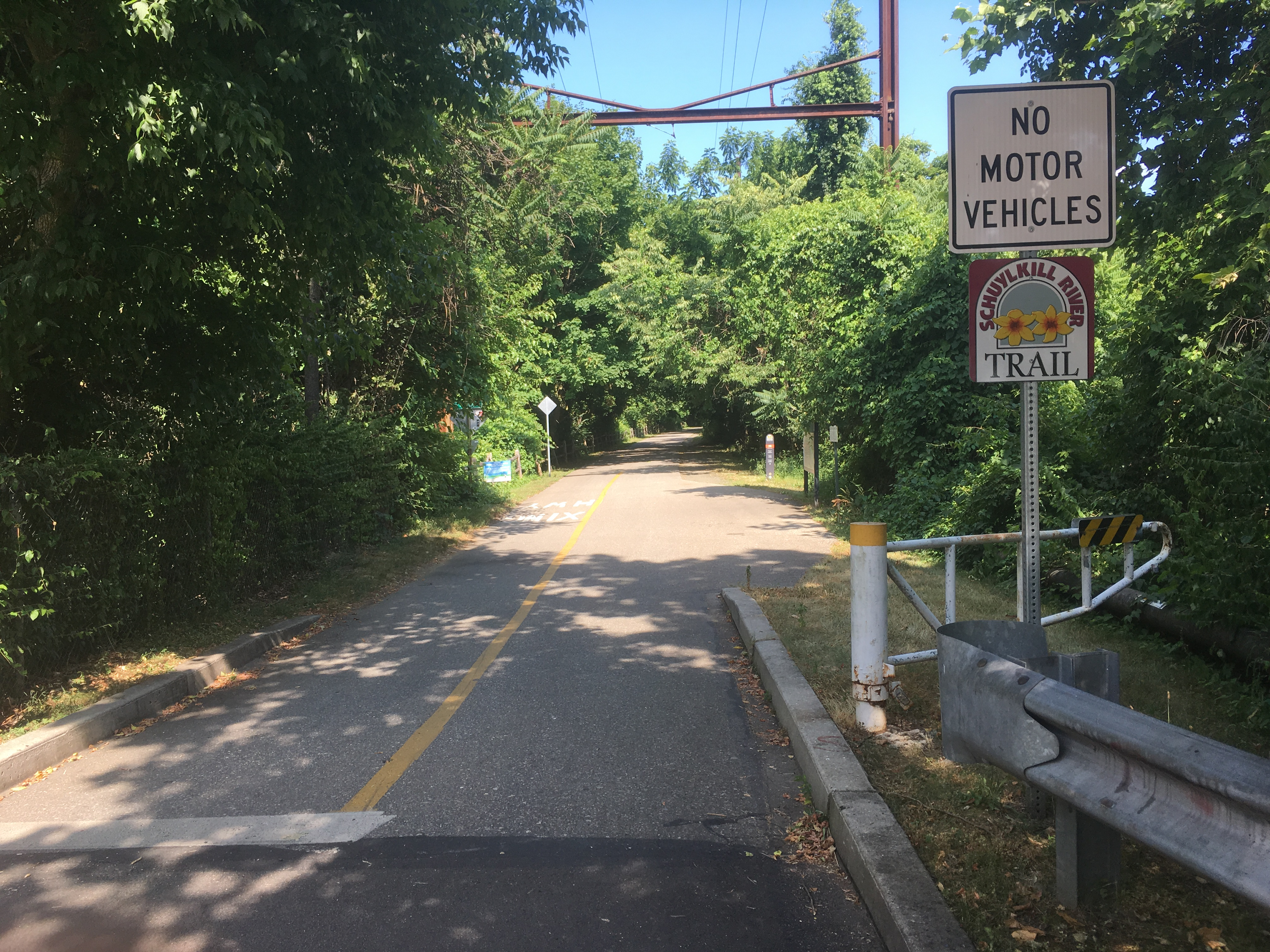 The Schuylkill River Trail eastbound at Spring Mill in Whitemarsh Township, Pennsylvania